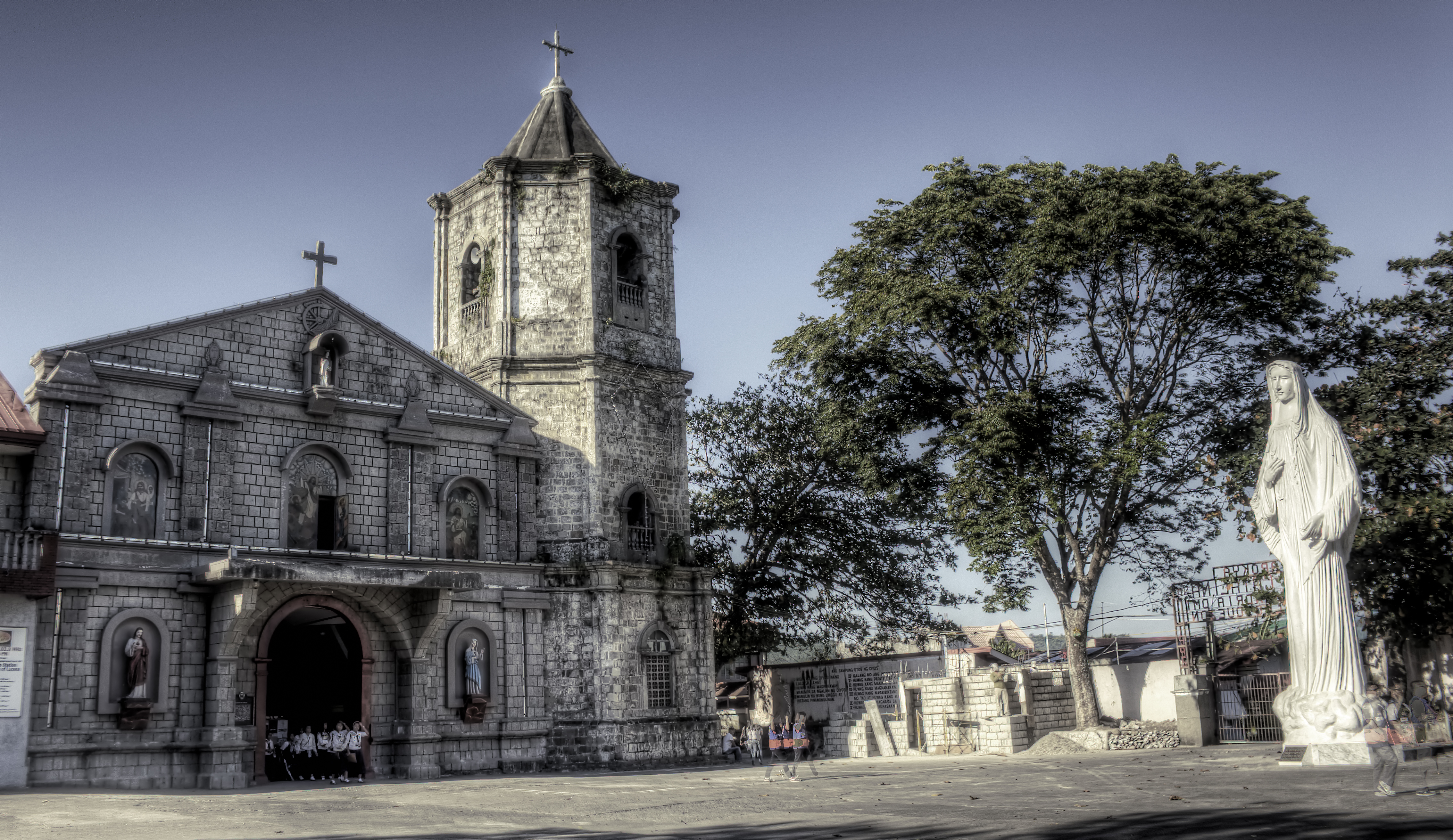 Pagbilao Church, Pagbilao, Quezon, Philippines}